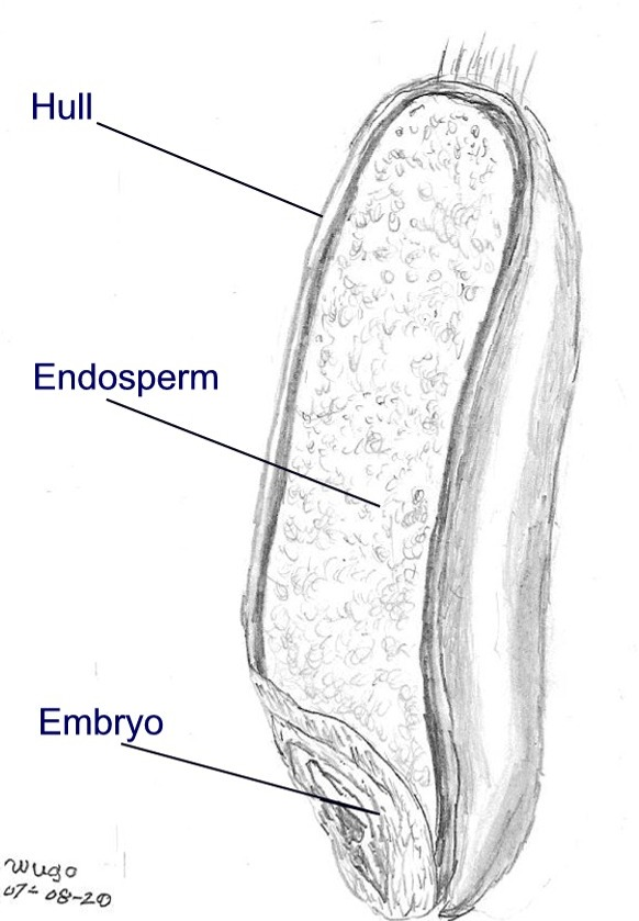 The seed is sectioned to reveal the embryo and endosperm.